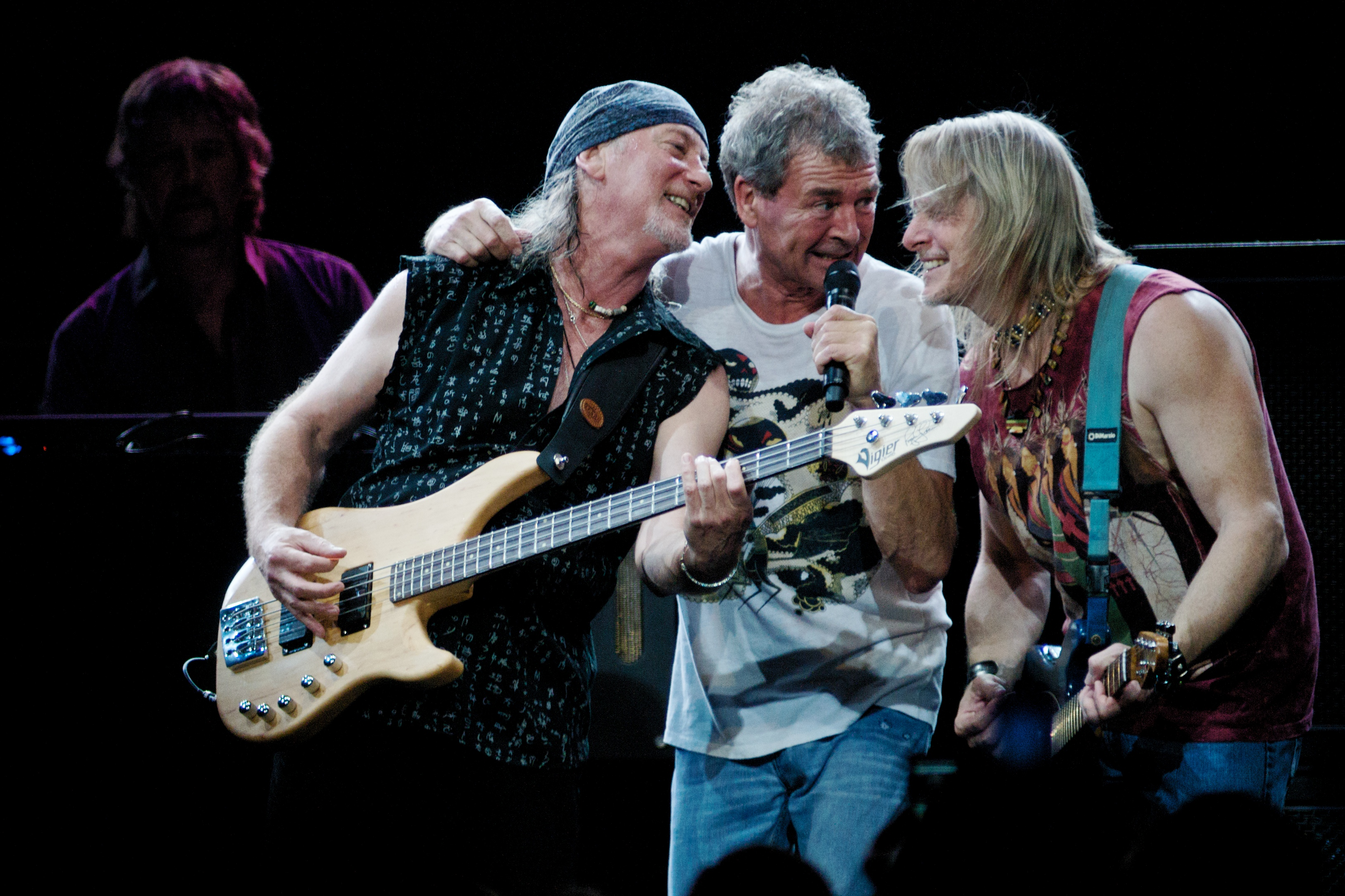 Deep Purple in Brazil, March 6, 2009